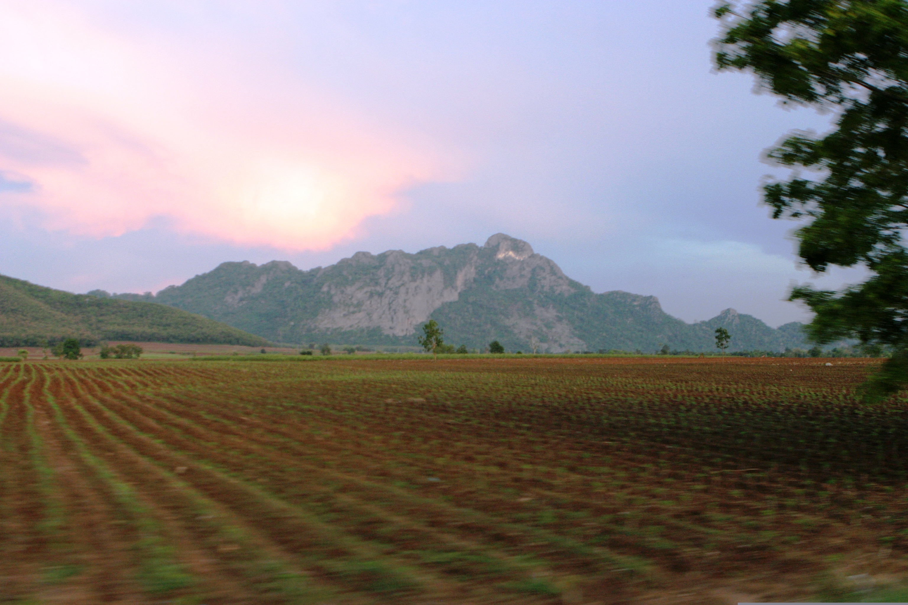 Photograph showing the countryside and mountain range located in the Srakaeo Province of Thailand, along the Thai and Cambodian border, April 10, 2008.